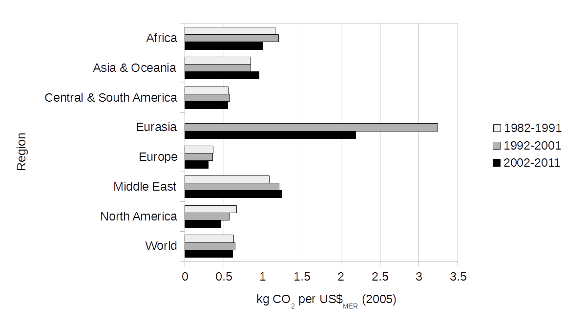 This bar graph shows the carbon intensity of gross domestic product (GDP) for different regions between the years 1982 and 2011. Carbon intensity of GDP is defined as annual carbon dioxide emissions divided by annual GDP. Carbon dioxide emissions are measured in kilograms. GDP is measured in US dollars (year 2005 values) using market exchange rates (MER). The regions are: Africa, Asia and Oceania, Central and South America, Eurasia, Europe, the Middle East, North America, and the world. These regional groupings are defined in File:Carbon intensity of GDP (using PPP) for different regions, 1982-2011.png#Regions. Three carbon intensity values are given for each region, which are averaged over the years 1982 to 1991, 1992 to 2001, and 2002 to 2011. Data are given in a later section. Intensities show variations regionally and over time. Global carbon intensity has, on average, fallen over this time period.